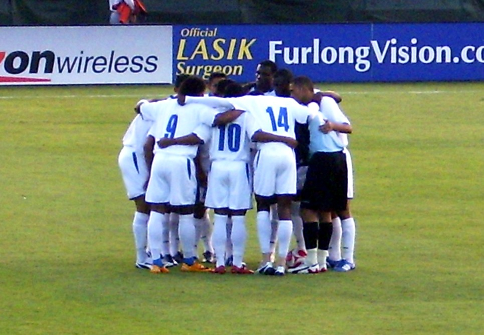 Honduran Soccer Players